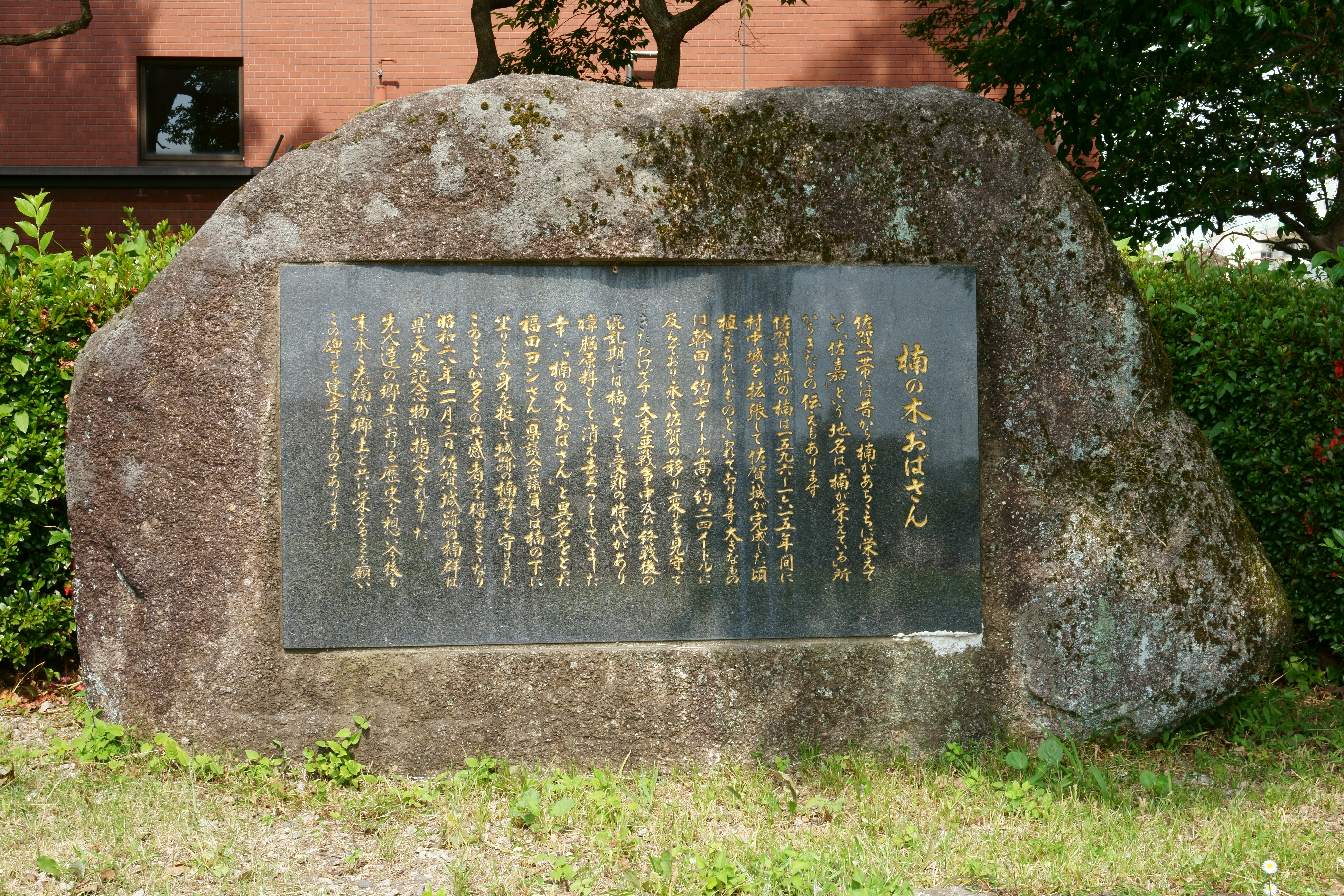 A honoring momunent of "Kusunoki Obasan", Yoshi Fukuda. She left an achievement in conservation of camphor tree forest around Saga Castle, hence she sometimes called "Kusunoki Obasan"(means "a camphor tree lady").